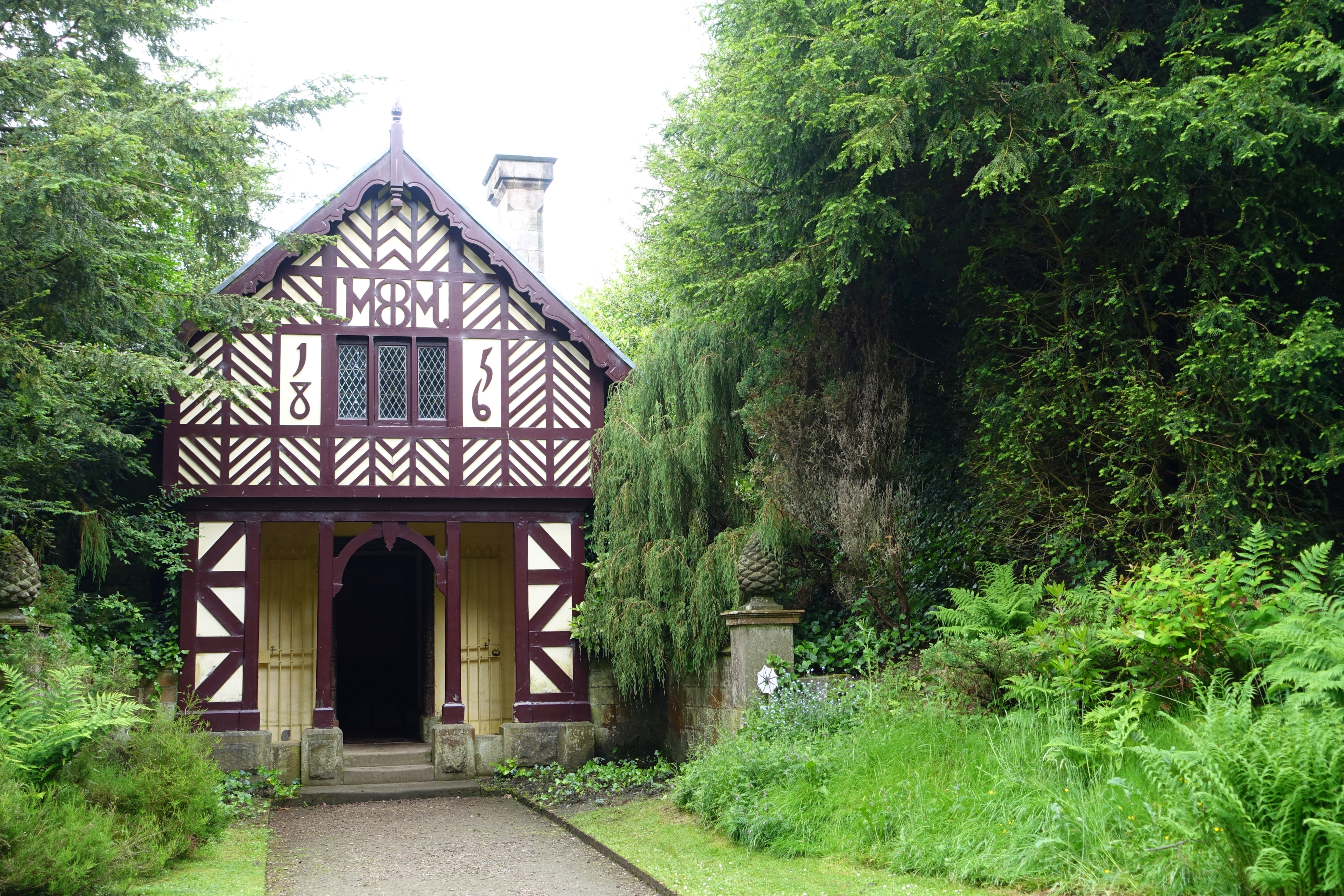 Cheshire Cottage - Biddulph Grange Garden - Staffordshire, England.